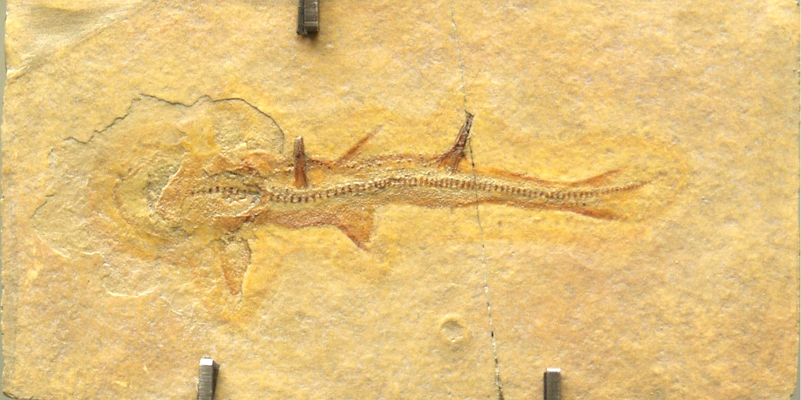 Fossil of a Bullhead shark - Heterodontus zitteli from Solnhofen. Museum für Naturkunde (Berlin).